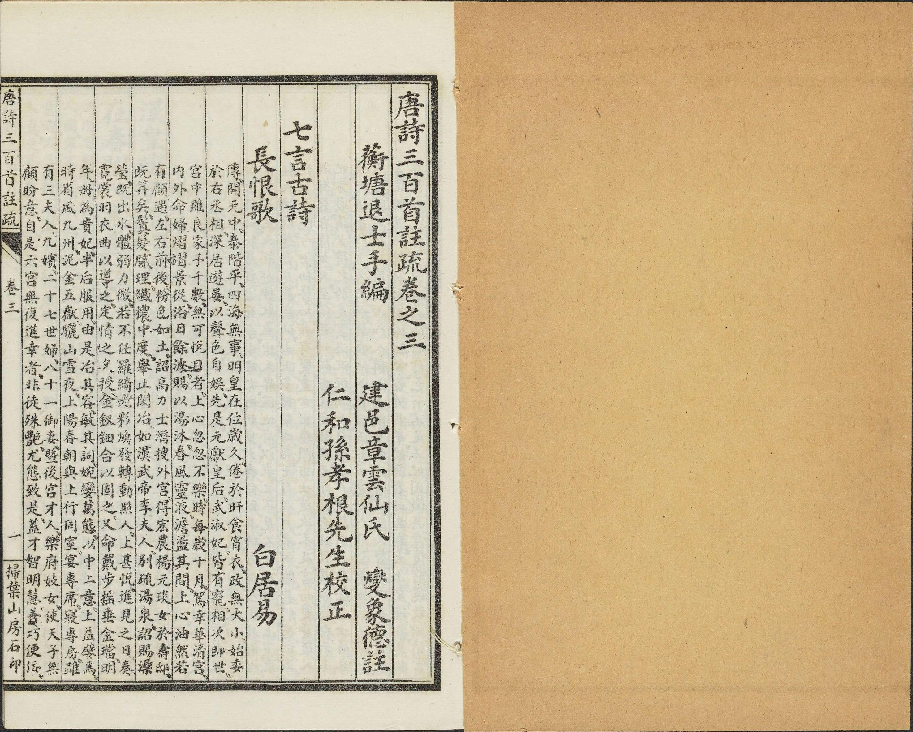 Three Hundred Tang Poems